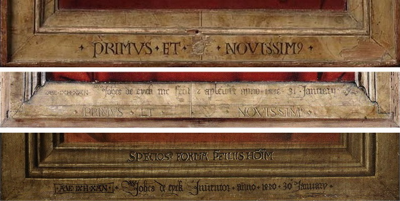 A comparison between the lower frames of three similar paintings of the Vera Icon ("True Image of Christ") attributed to Jan van Eyck or followers, ca. 1440 or later. Top: Alte Pinakothek, Munich. Middle: Gemäldegalerie, Berlin. Bottom: Groeningemuseum, Bruges. Montage by Kleon3 of 3 images that have previously been uploaded to Wikimedia Commons under a free licence: File:Jan van Eyck, Vera Icon (Alte Pinakotek, München).jpg File:Van Eyck (workshop), Holy Face, 1438, Berlin.jpg File:Vera Icon, circa 1601 - circa 1625, Groeningemuseum, 0040117000.jpg